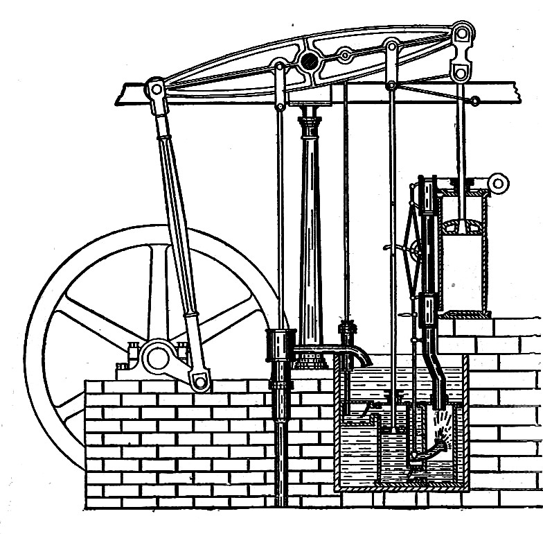 Watt's condensing engine (New Catechism of the Steam Engine, 1904).jpg